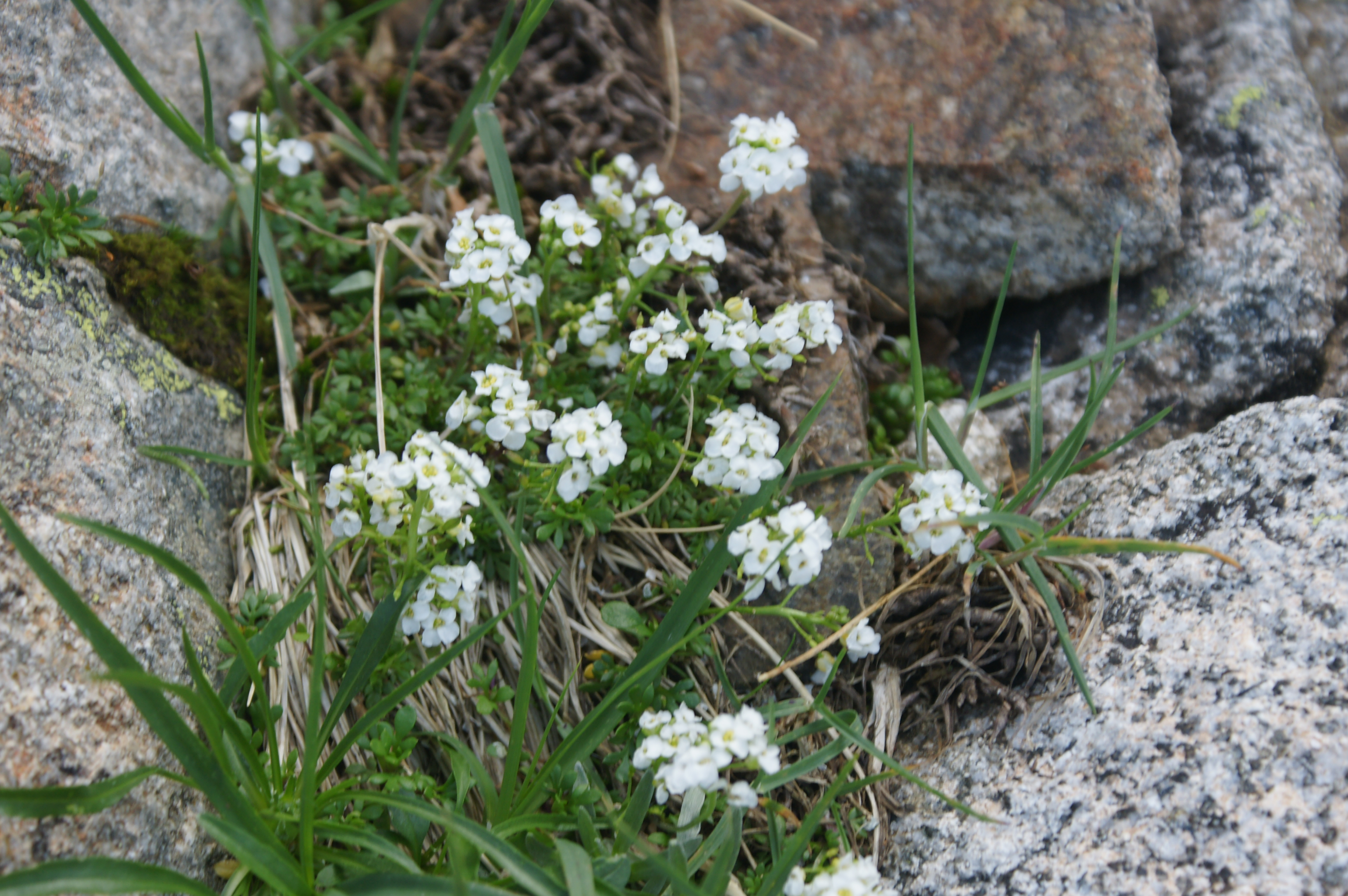 Arenaria montana, Pyrenees, above La Renclusa refuge